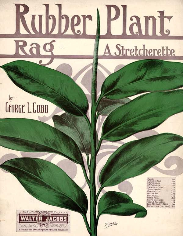 Rubber Plant Rag, 1909